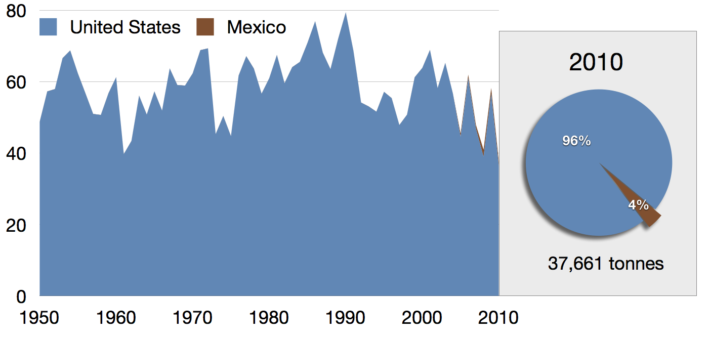 Fisheries recorded capture of wild Farfantepenaeus aztecus, northern brown shrimp, in thousand tonnes from 1950 to 2010. Based on data sourced from the FishStat database, FAO.